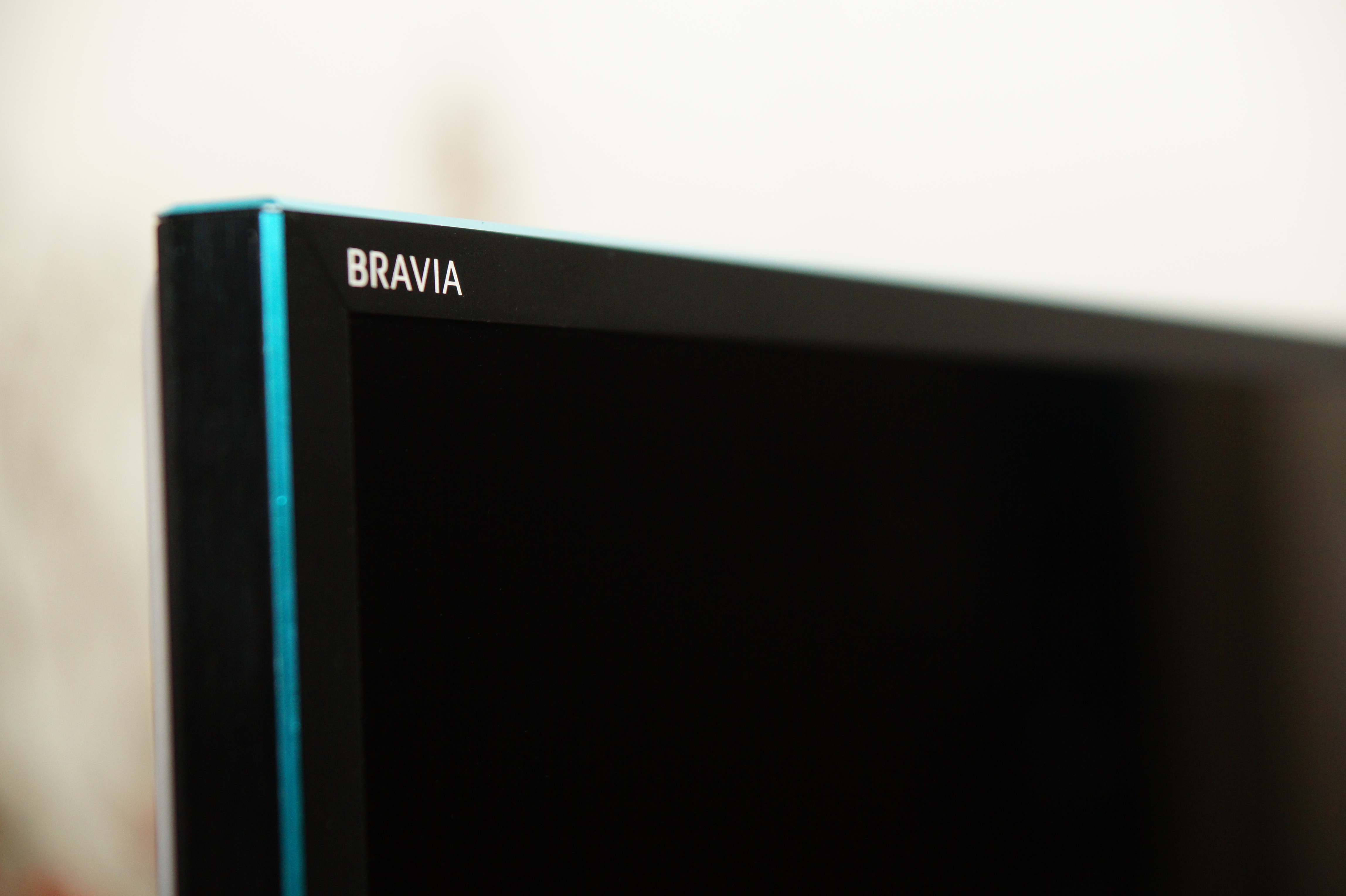 Bravia W9 Zimny